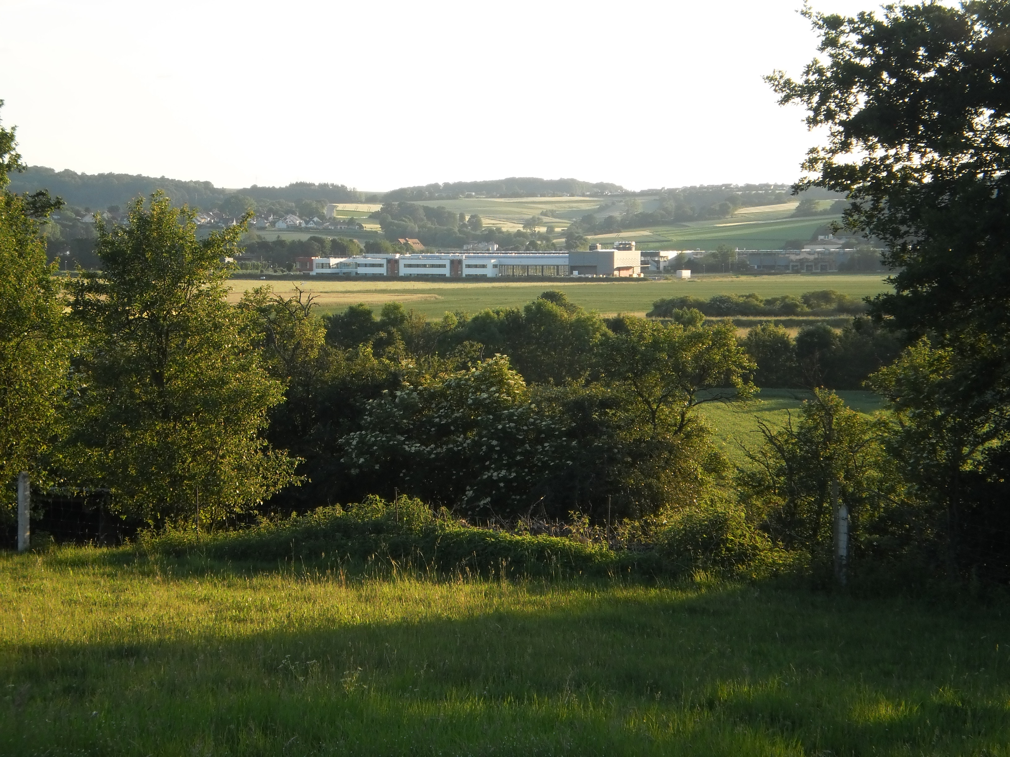 Buildings of Schneider GmbH (left) and Seidel factory (behind) in Fronhausen, green valley of river Lahn near railway line Main-Weser-Bahn between Marburg and Giessen and cycling route Lahntalradweg. The narrow valley and the terraces are used for agriculture and housing areas between the two cities with universities. On the hill in the background is Oberwalgern, a village of Fronhausen. Photo taken on 2017-06-05 in late afternoon of a sunny day in late Spring 2017 in Hesse, nearly a summer day in Germany